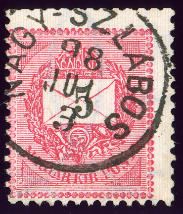 Kingdom of Hungary 5 krajczar stamp, 1888 issue, cancelled NAGY-SZLABOS in 1898.